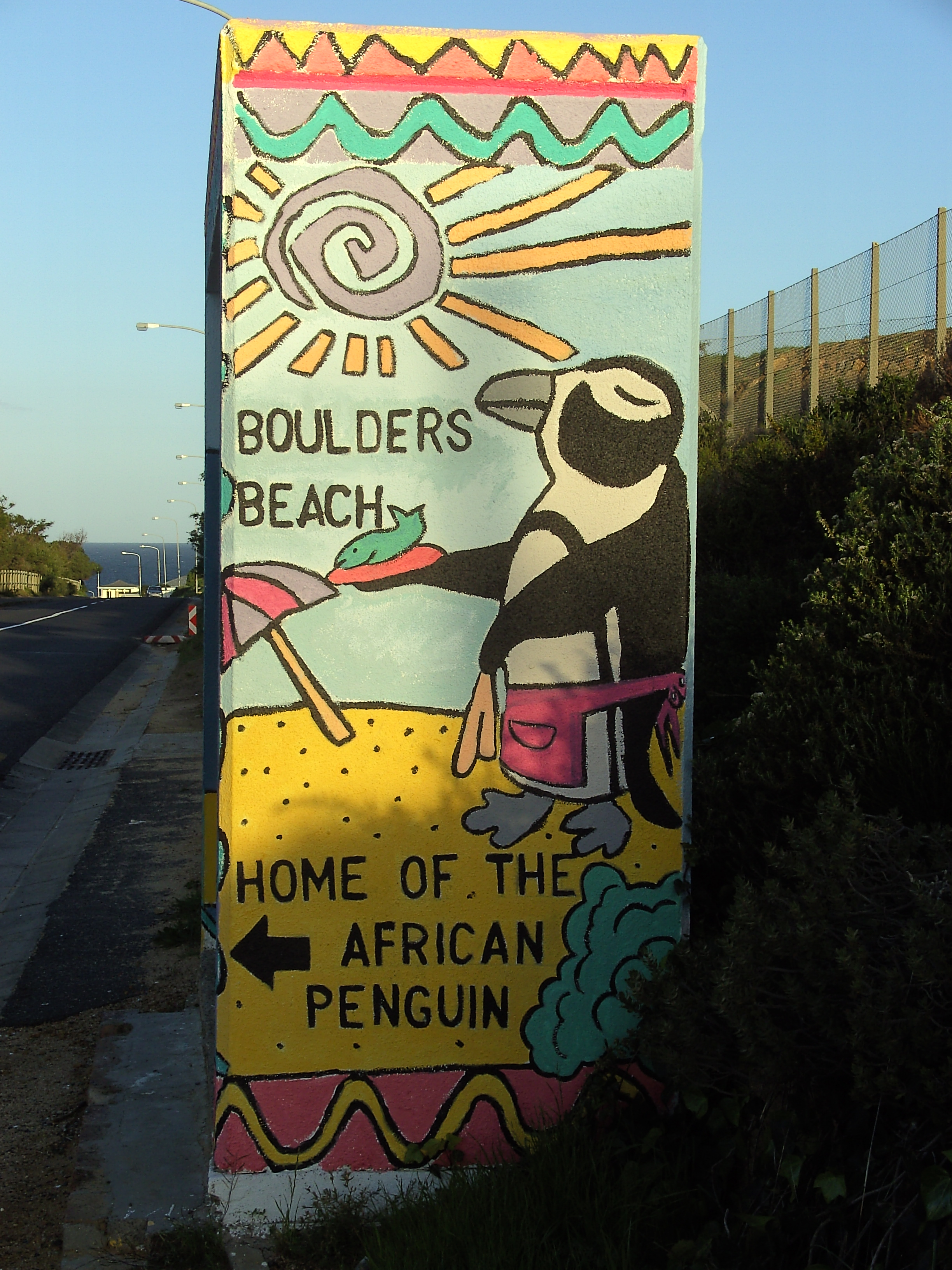 boulders beach bus station entrance